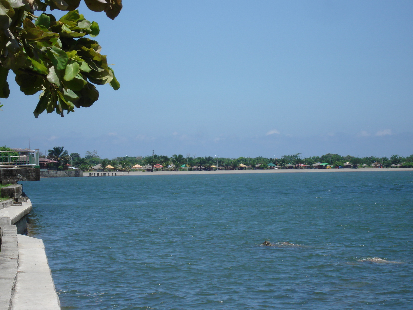 Playa del Bajito en Tumaco